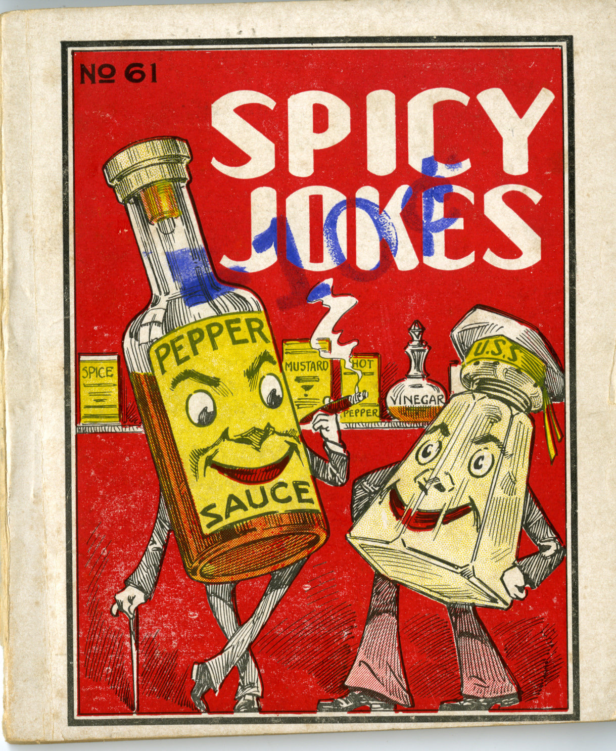 From cover of Spicy Jokes, a joke book published by Baltimore- based Ottenheimer Publishers in 1915.